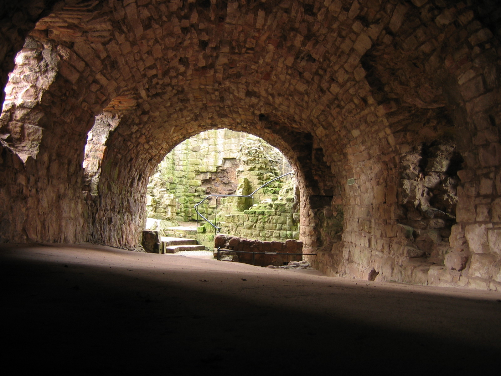 Cellar of Hailes Castle, East Lothian, Scotland.